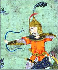 Painting of Ashkabus in The Shahnama of Shah Tahmasp